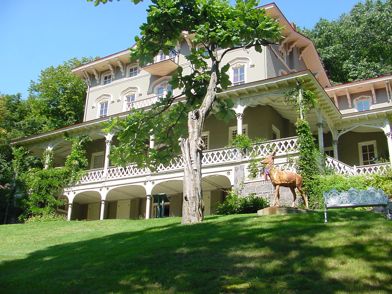 Picture was taken by me.